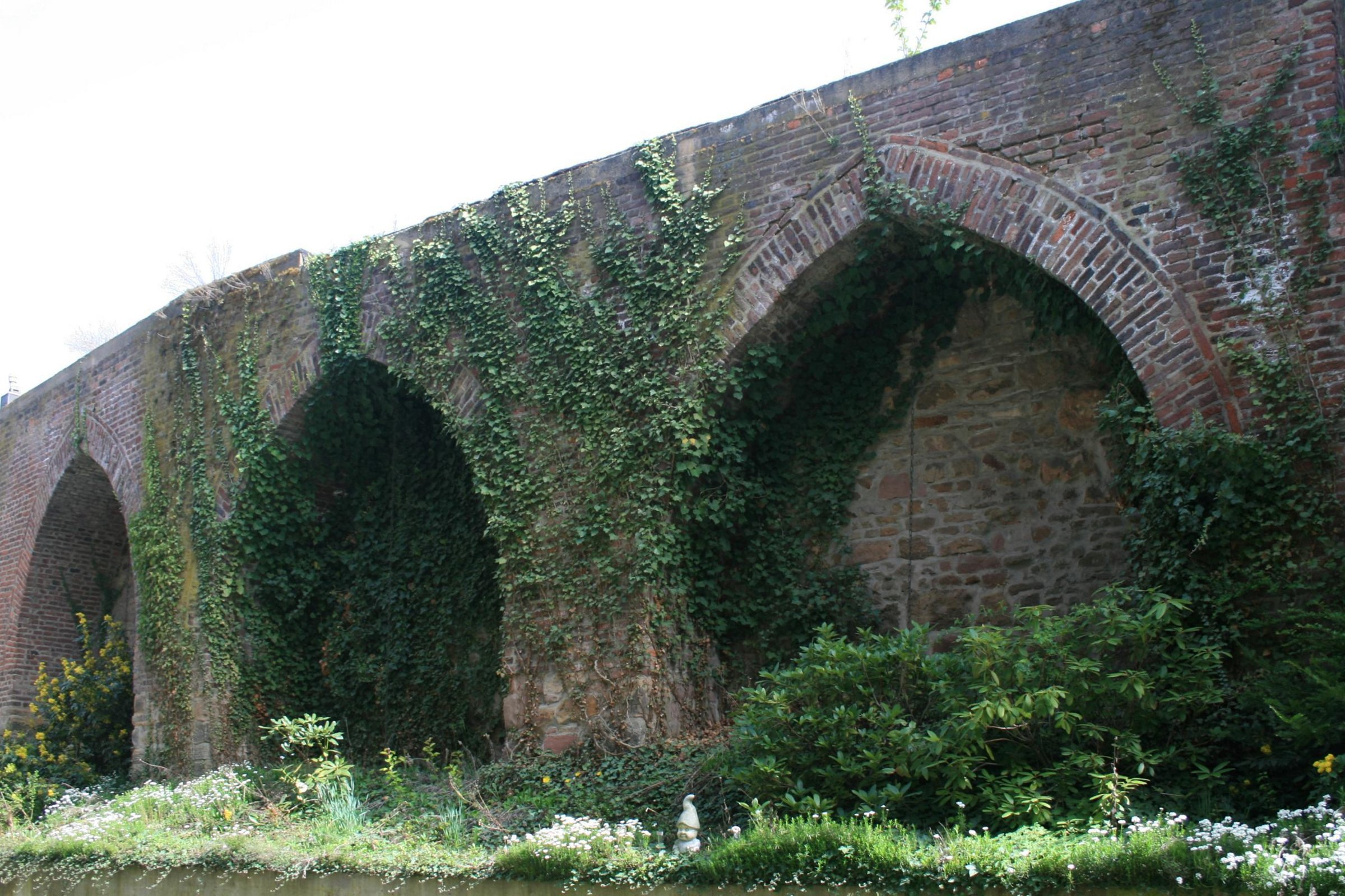 Cultural heritage monument No. 1/036 in Düren